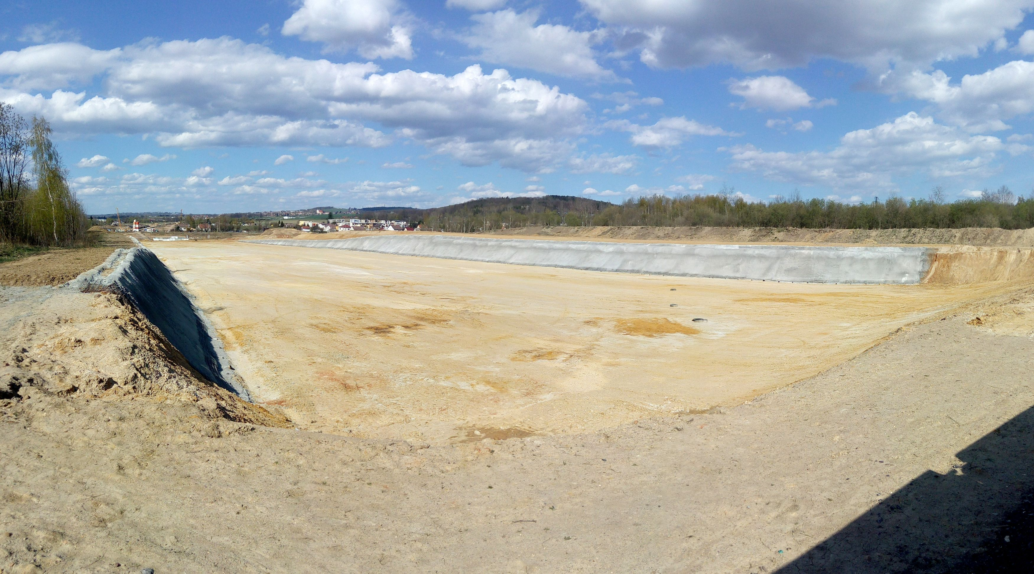 Construction of the Pohůrka Tunnel in Nová Pohůrka, part of České Budějovice, South Bohemian Region, Czech Republic